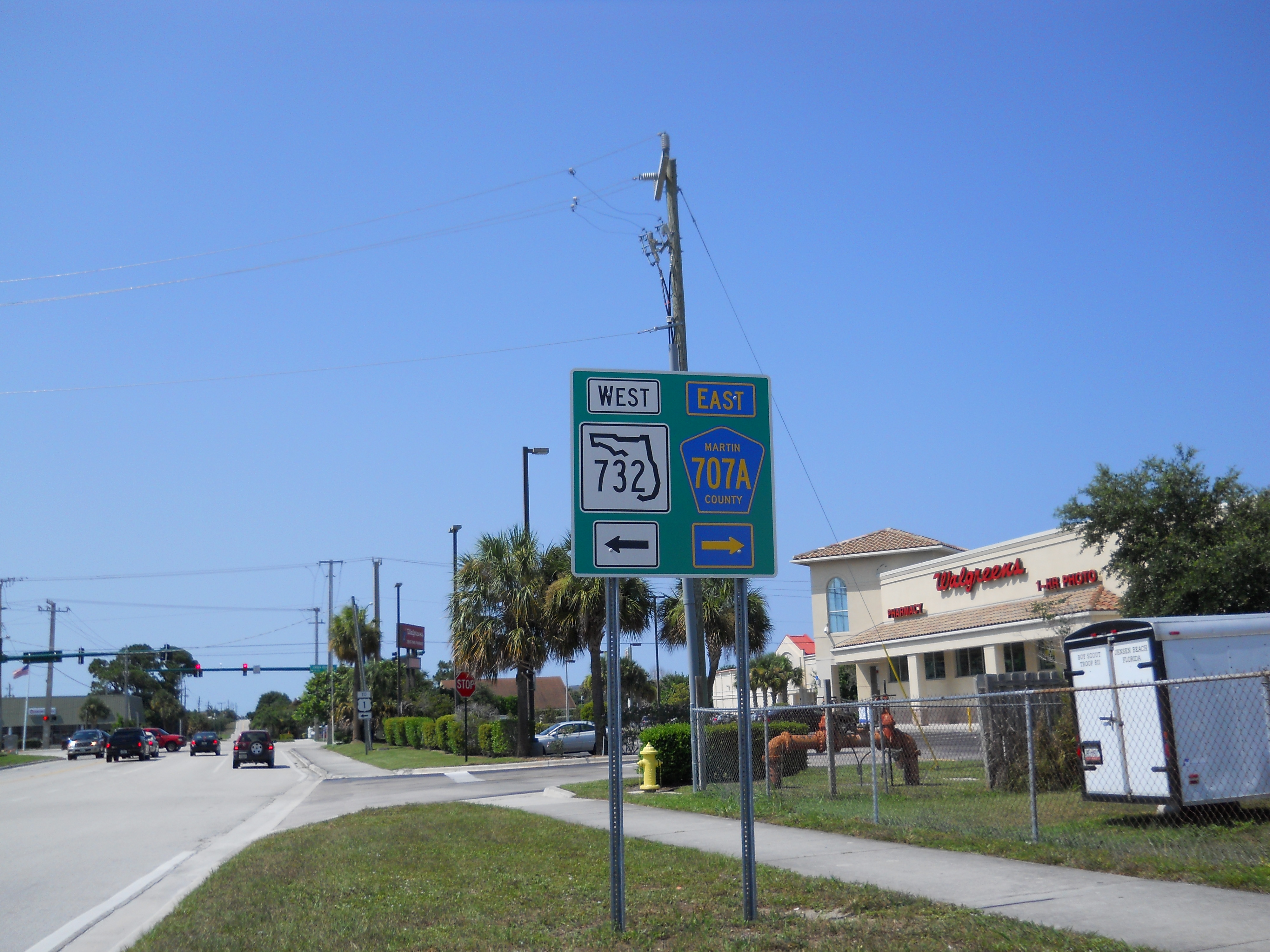 Sign on north bound N.E. Savanna(h) Road just south of intersection with N.E. Jensen Beach, Martin County, Florida